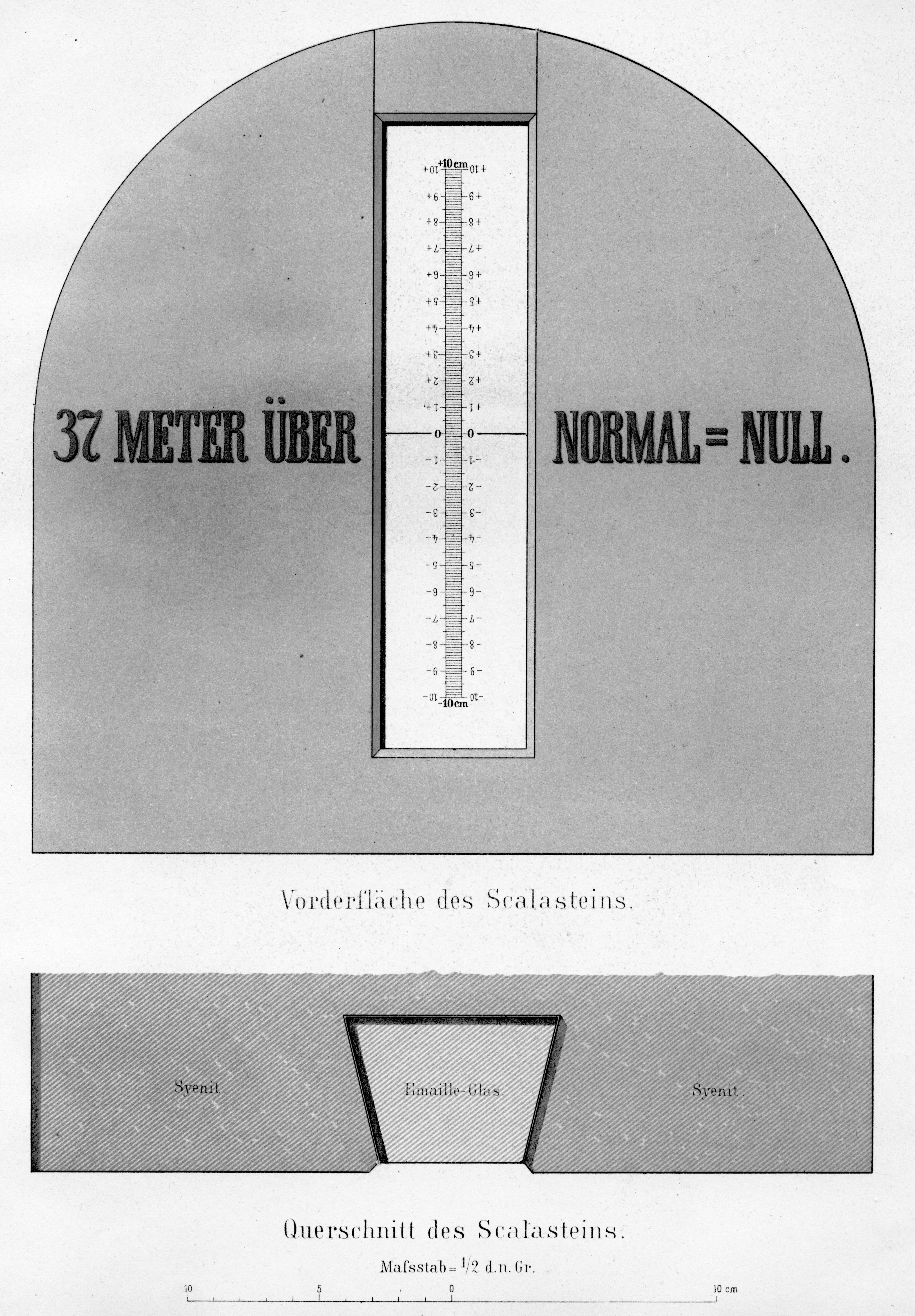 Mean sea level benchmark 1879, scale stone